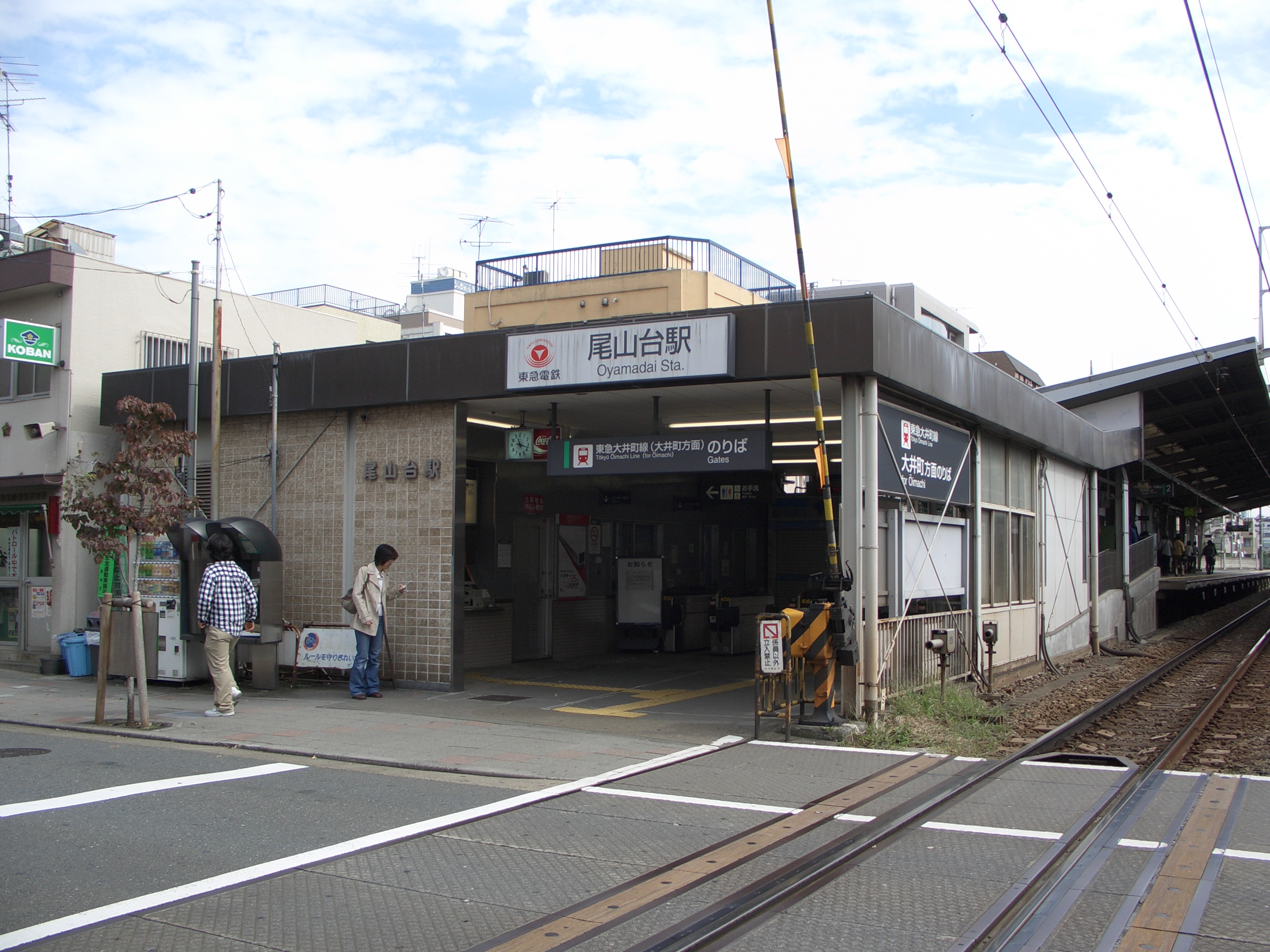 Description（説明）: Tokyu Ōimachi line Oyamadai Station for Ōimachi Gates（東急大井町線 尾山台駅 大井町方面 のりば） Source（出典）: Tokyu Ōimachi line Oyamadai Station（東急大井町線 尾山台駅） Photographer/Painter（制作者）: yaguchi（矢口） Date（製作日）: 2006-10-15